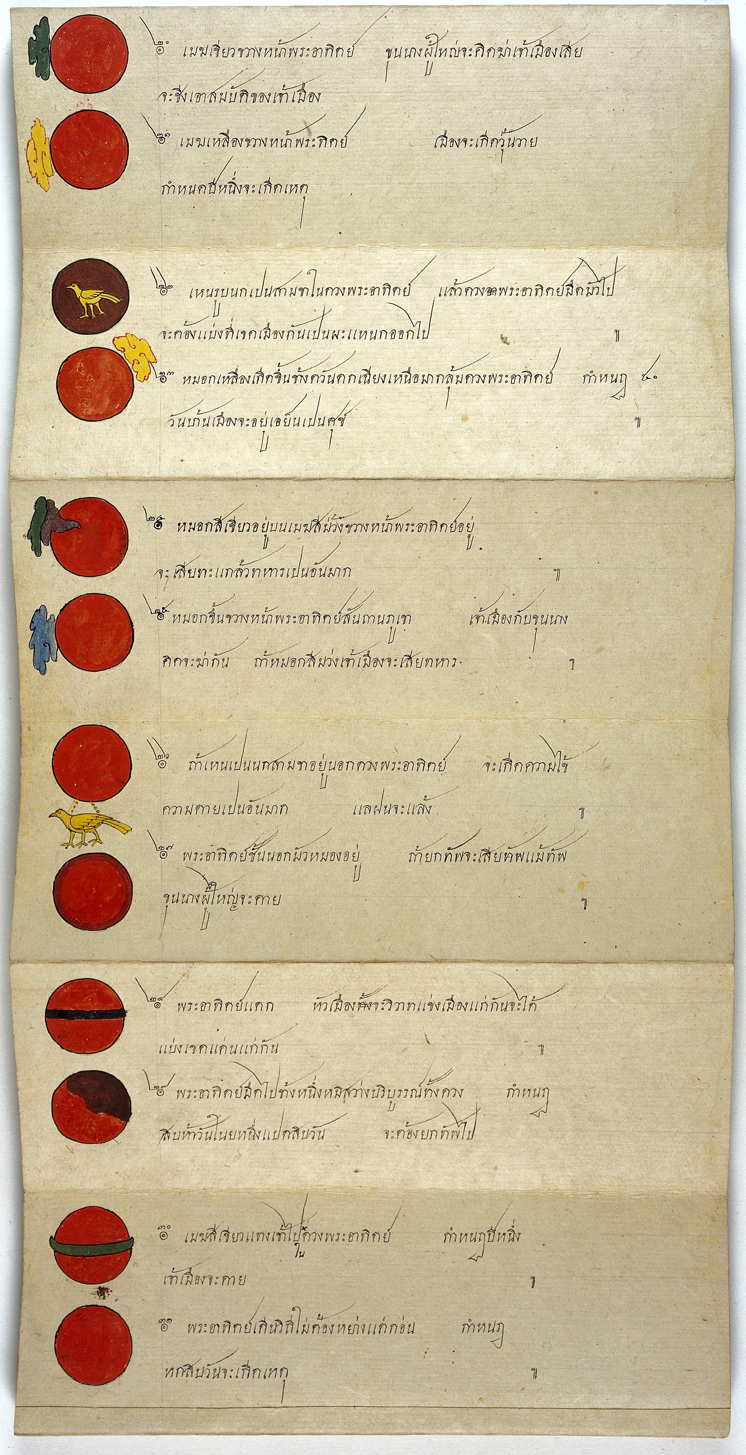 Thai astronomical manuscripts on fortune telling showing various observed features of the sun and their interpretations. The last but one observation, the sun surrounded with a green band, indicates the death of a ruler within a year. Asian Collection Keywords: Astronomical; Fortune telling; Future; ms thai 9; Observation; Forecasting; Thailand